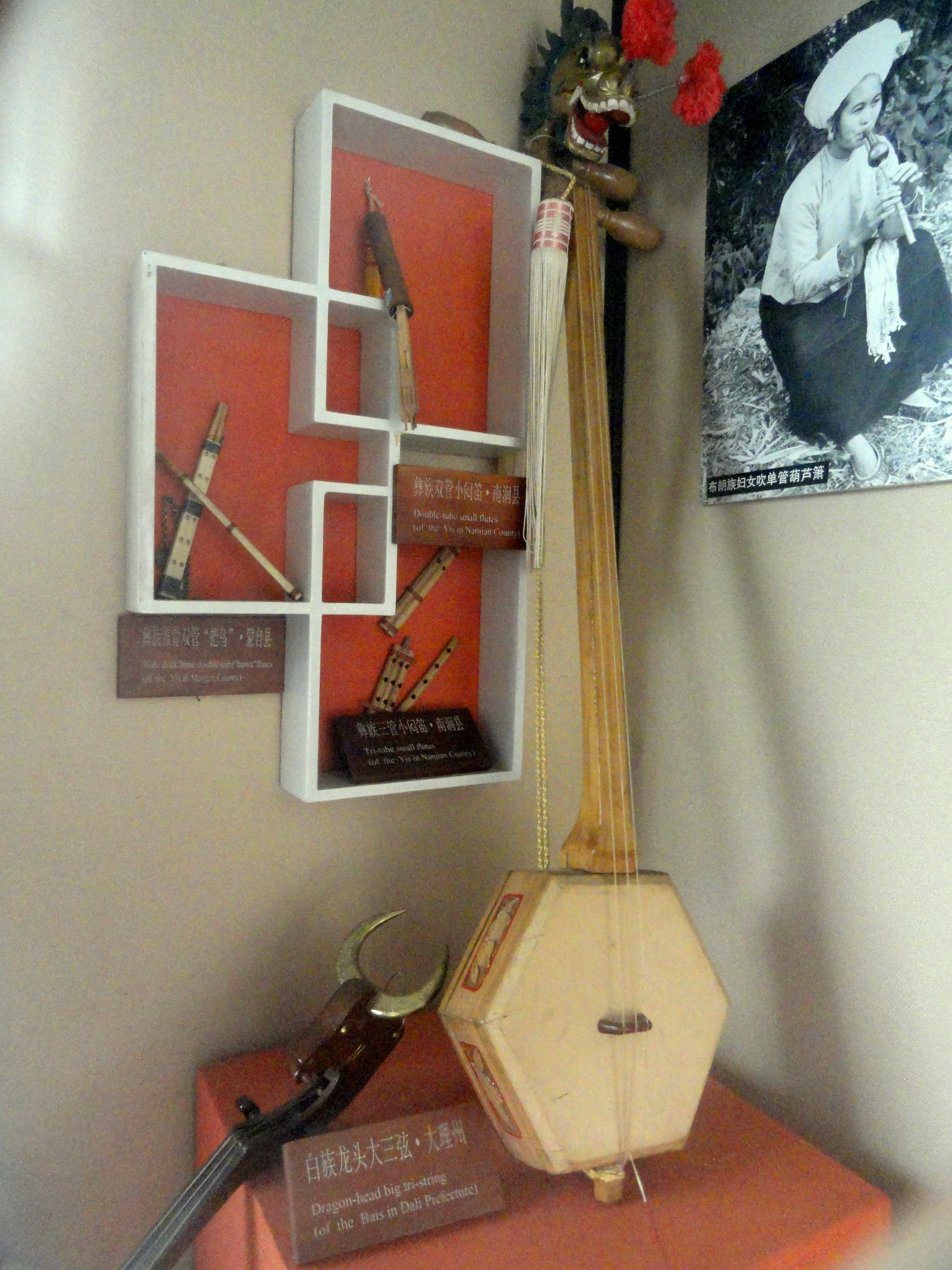 Bai dragon-headed, triple-string instrument. Musical instruments in the Yunnan Nationalities Museum, Kunming, Yunnan, China.